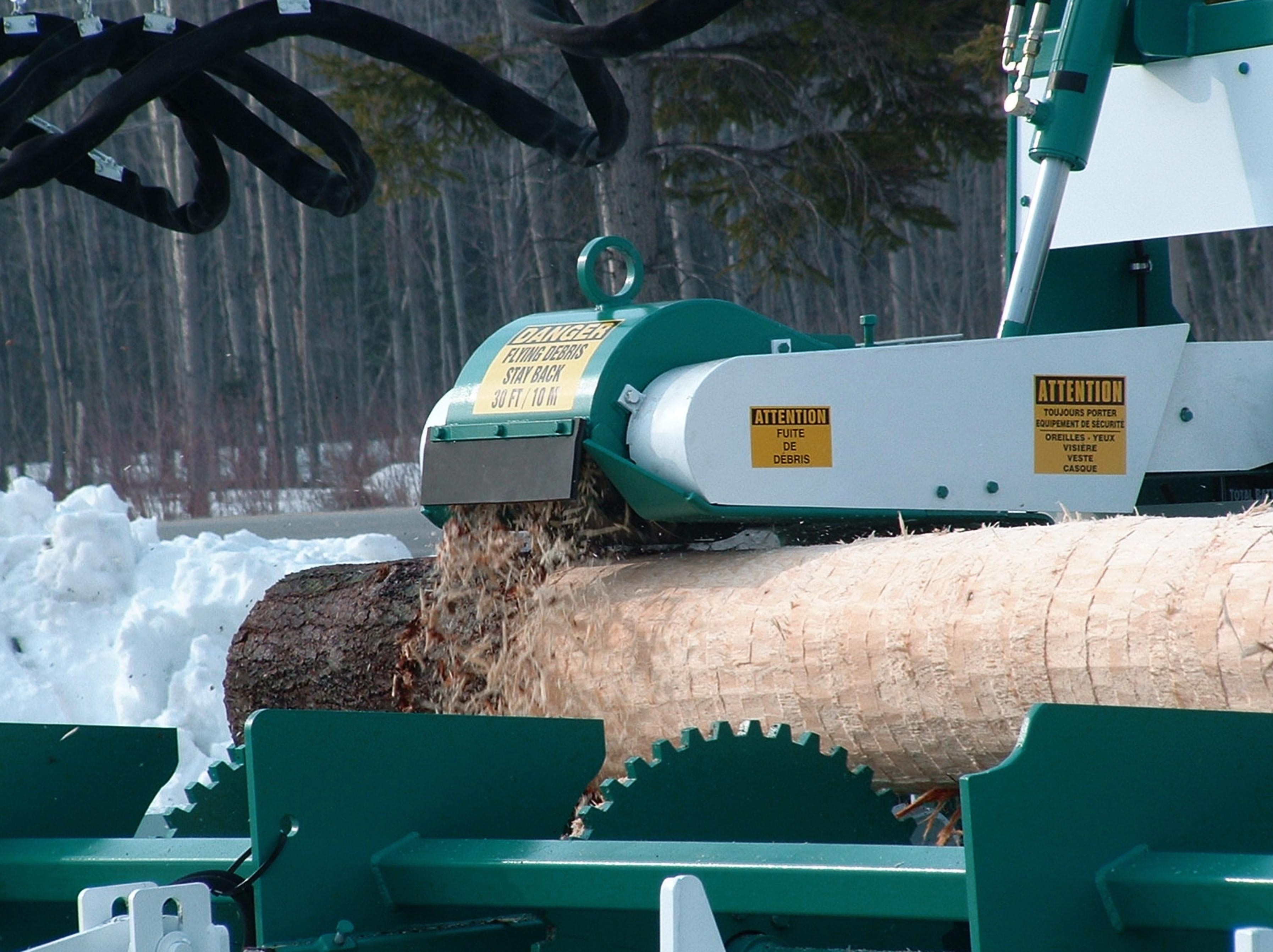 Rosserhead Style Debarker brings clean log to the sawmill.